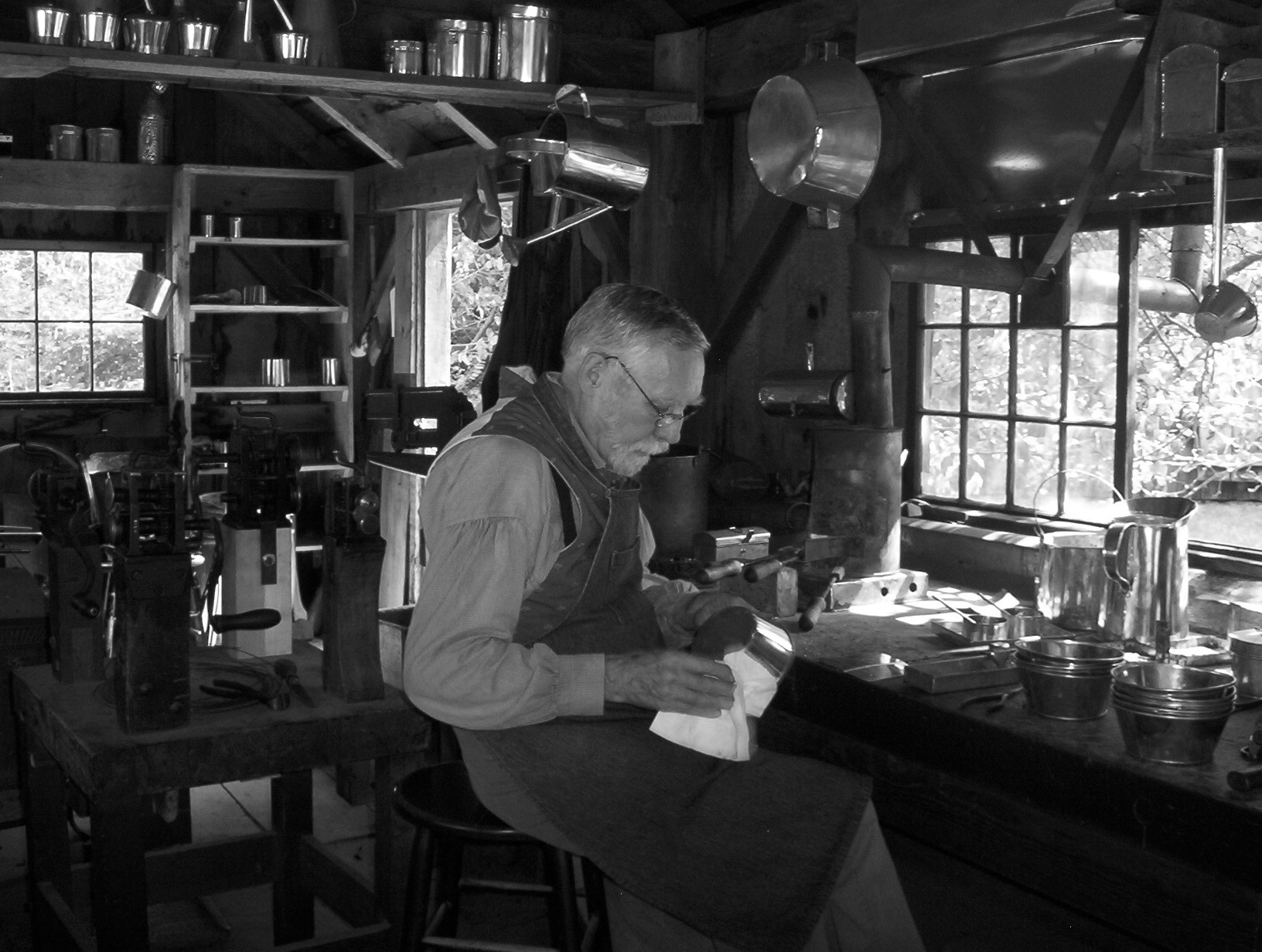 Old Sturbridge Village, Massachusetts - Tinsmith in shop, black and white